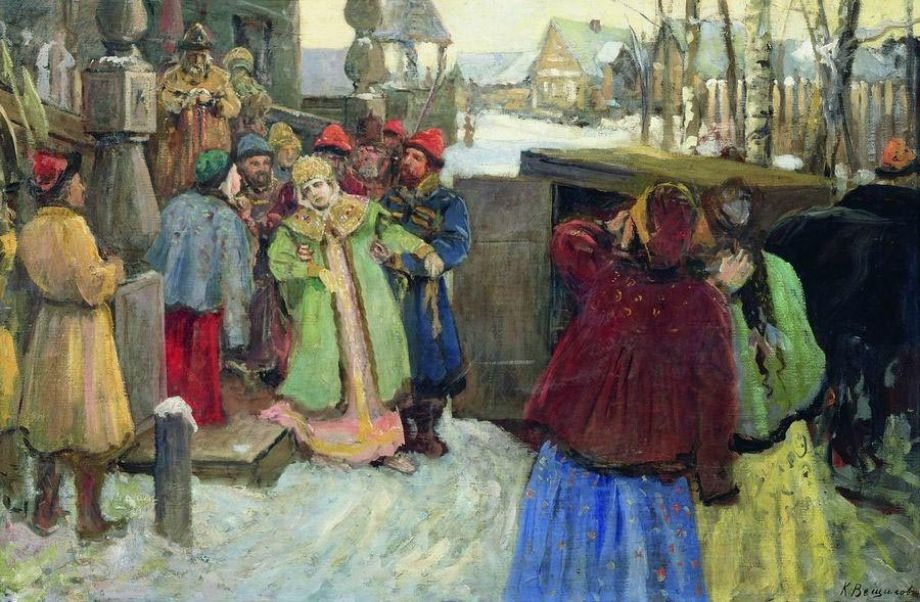 The Arrest of Tsarevna Sophia. Regional W. Wereshchagin Art Museum, Mykolaiv